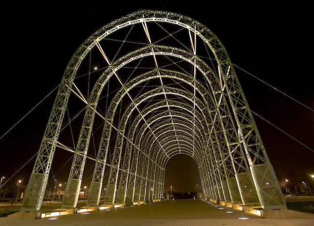 Airship Hanger at Farnborough, Hampshire, UK